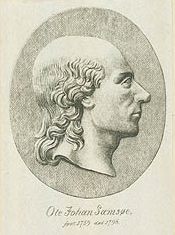 Ole Johan Samsøe (1759-1796)